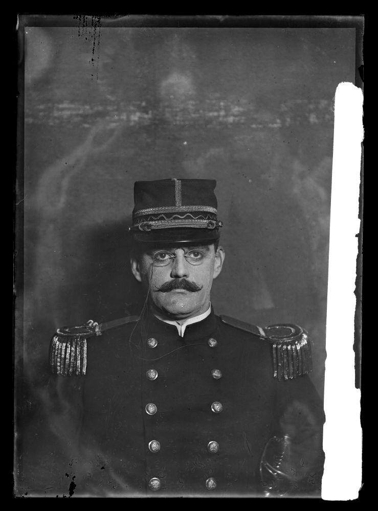 Accession Number: 1974:0056:0410 Maker: William M. Vander Weyde (American 1871–1929) Title: Alfred Dreyfus Date: ca. 1900 Medium: negative, gelatin on glass Dimensions: 7x5 in. George Eastman House Collection General – information about the George Eastman House Photography Collection is available at For information on obtaining reproductions go to